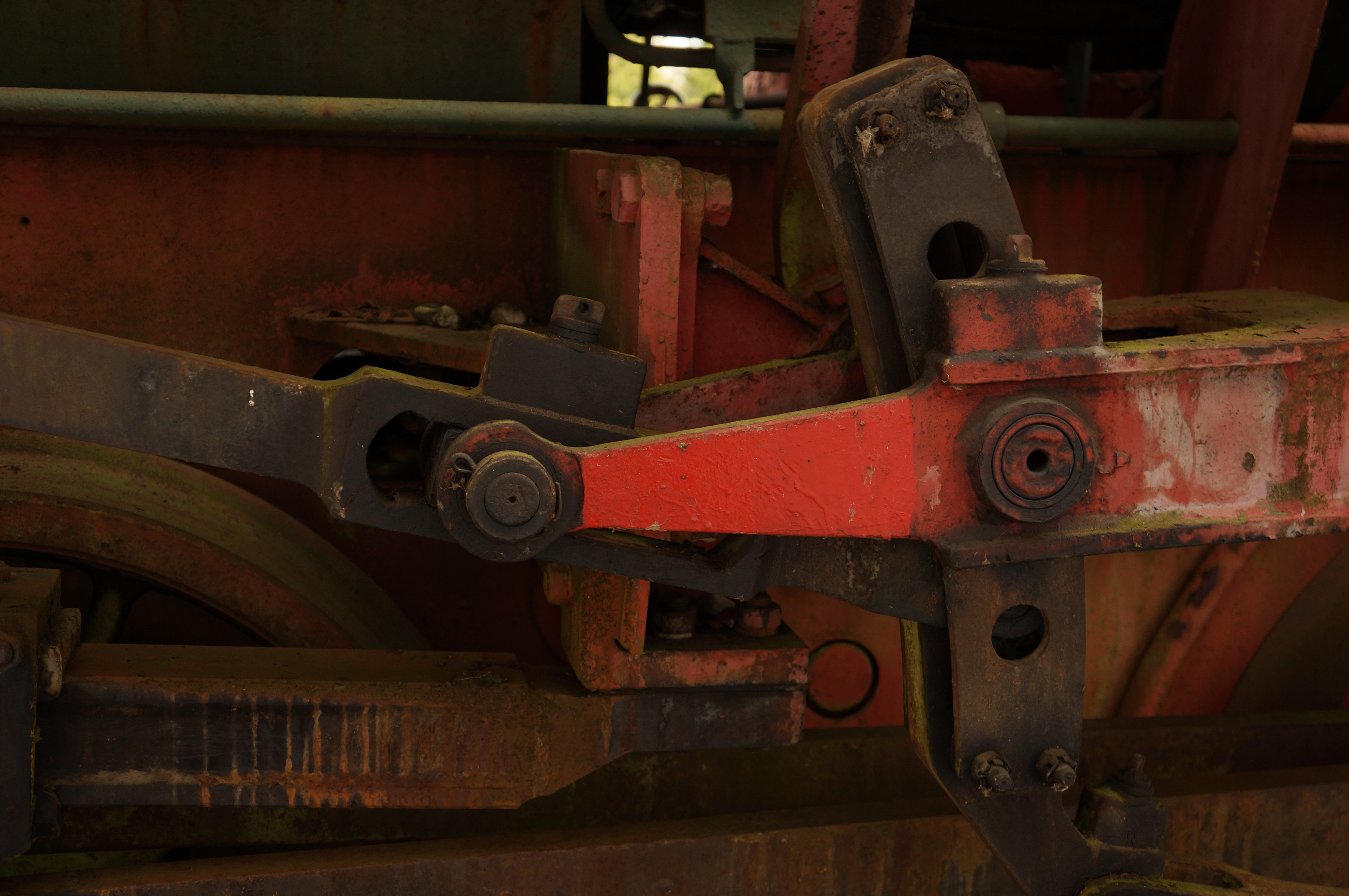 The Winterthur-Schleife at a fireless steam locomotive "Meiningen"